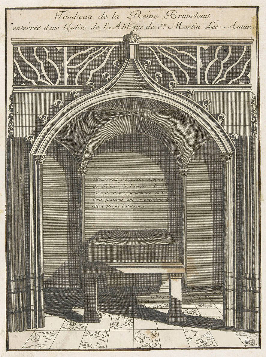 Tomb of Queen Brunhilda, Abbey Saint-Martin of Autun, before its destruction in 1790s